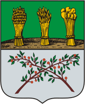 Vadinsk (Kerensk, Penza oblast), coat of arms (1781)